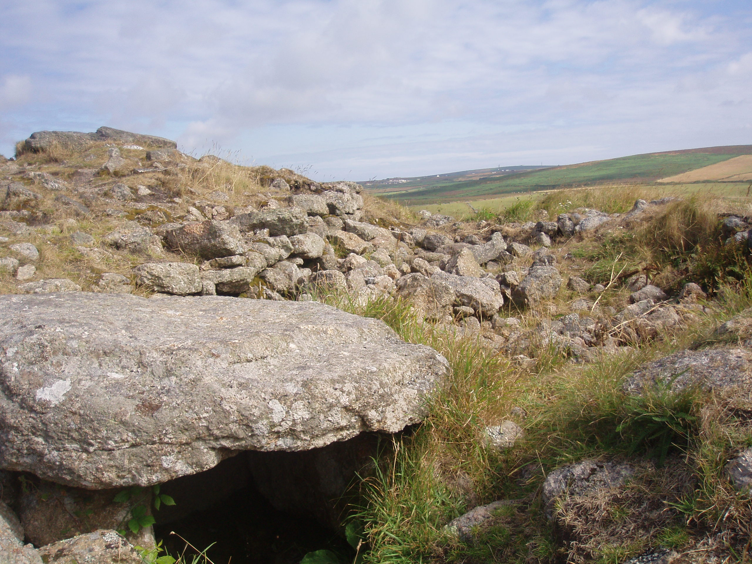 Photo taken and uploaded by Mammal4 Summary Photo taken and uploaded by Mammal4